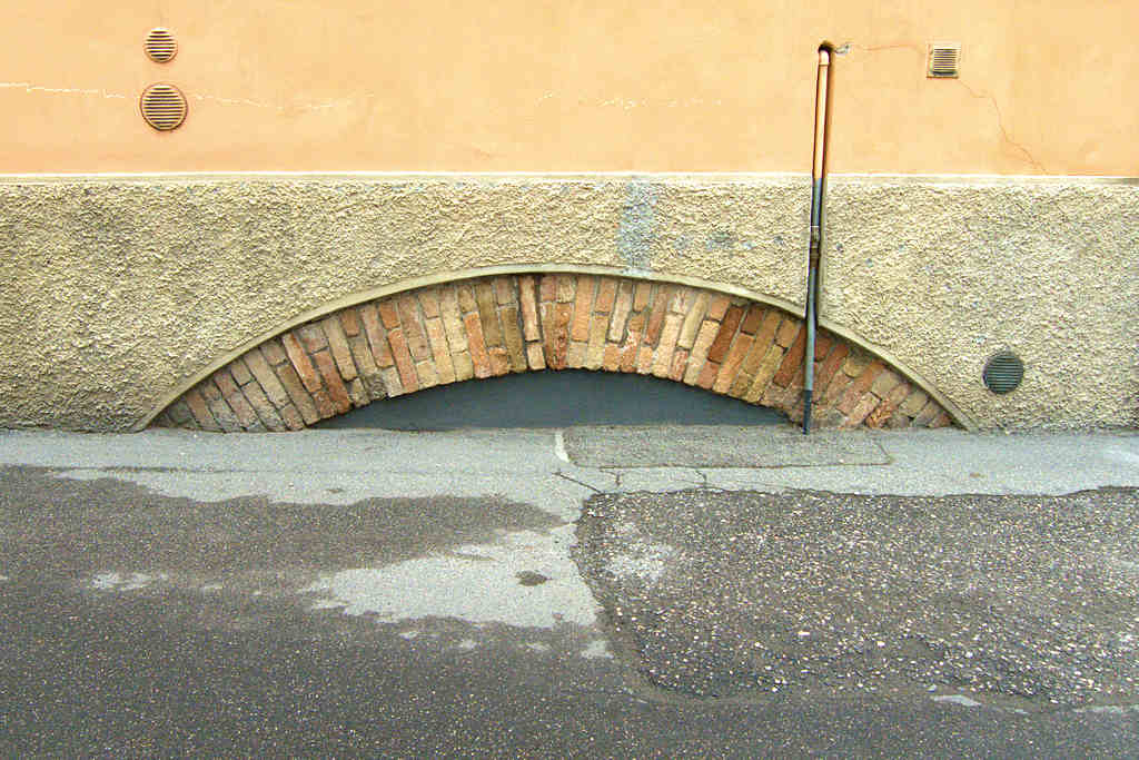 Arch under which passed the Rino canal in Crema